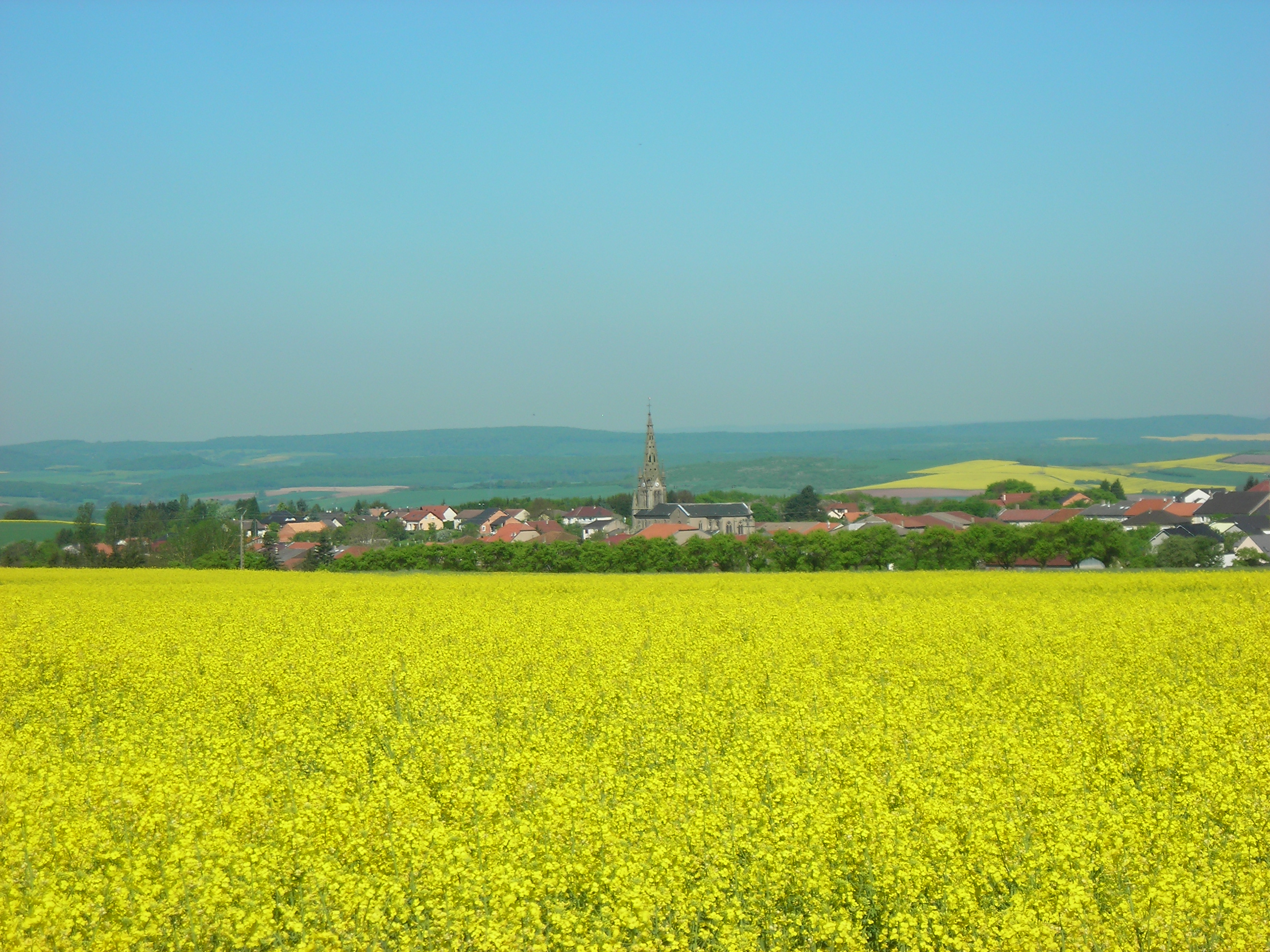 Coume